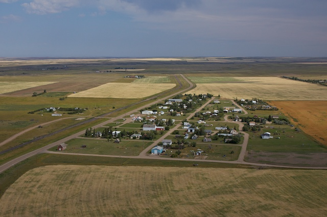 Aerial picture of Antelope Montana